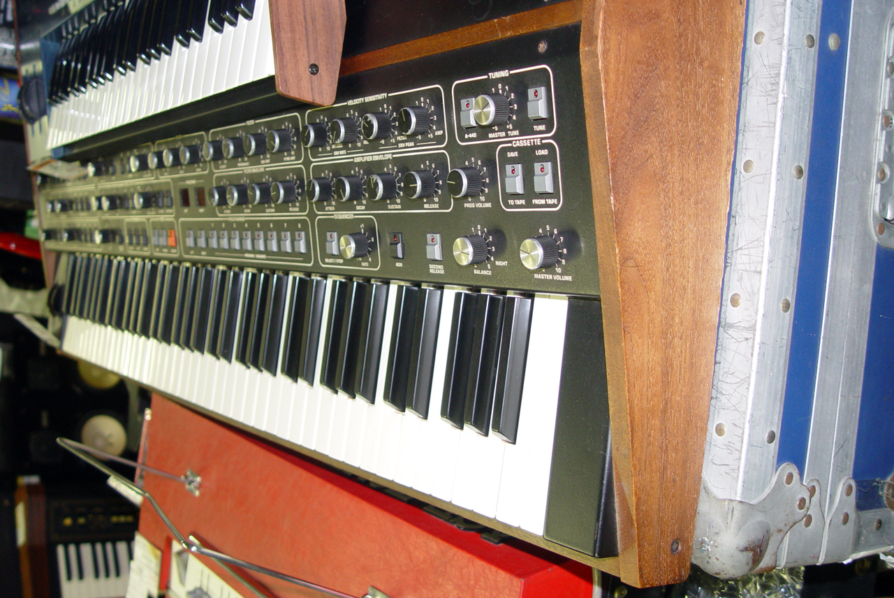 Sequential Circuits Prophet T8 seen at Echigoya music in Shibuya.